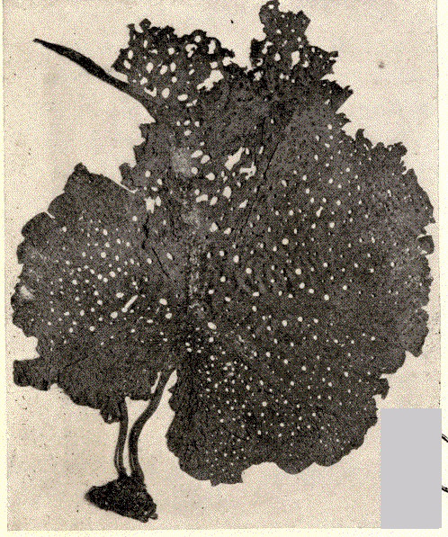 Agarum Turneri Subject: Algae Tag: Aquatic Botany